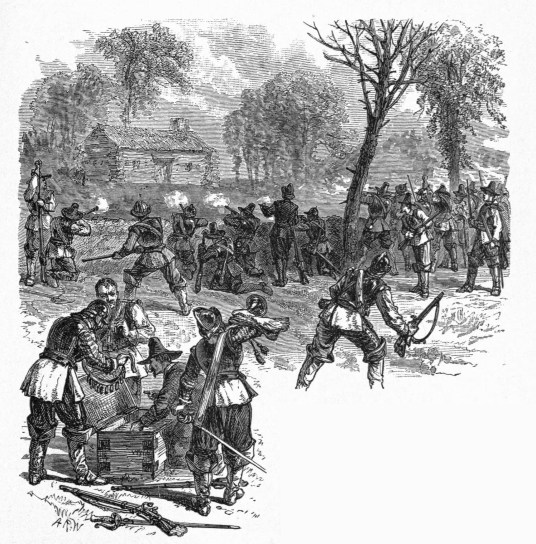 Depiction of the attack on Shawomet made by Massachusetts authorities in 1643